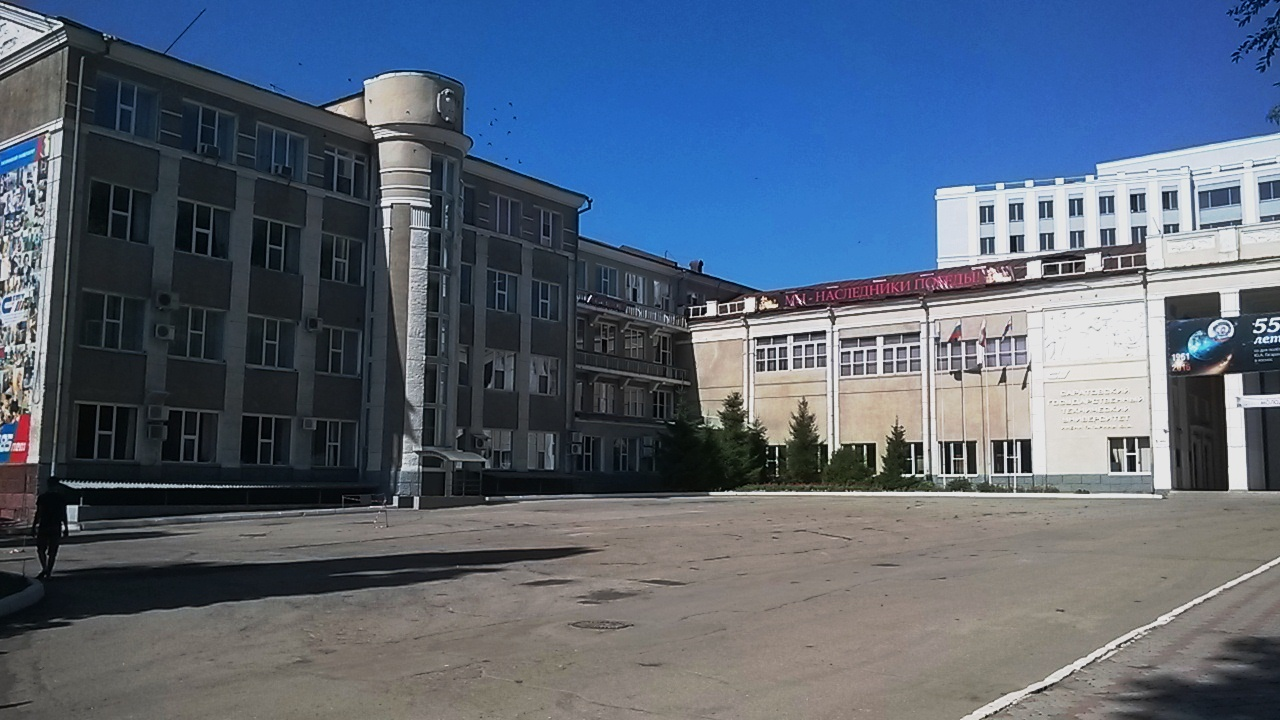 Saratov State Technical University, July 2016